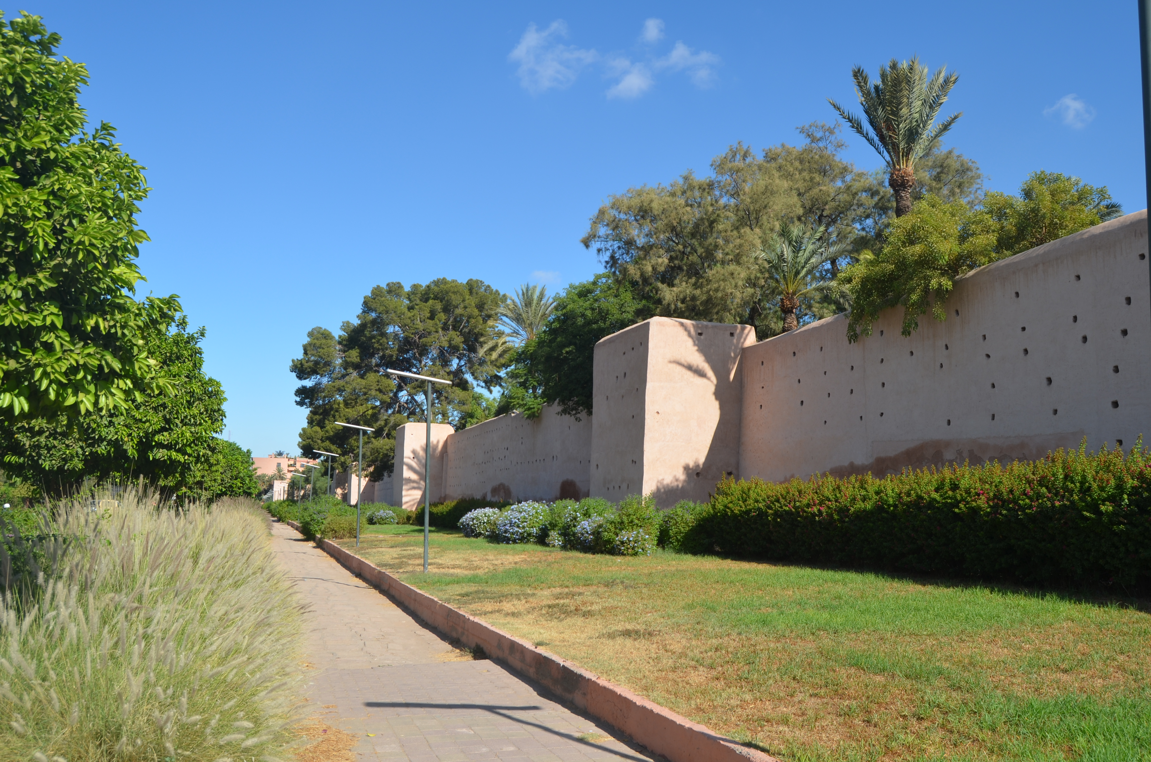 Along the walls of Marrakesh